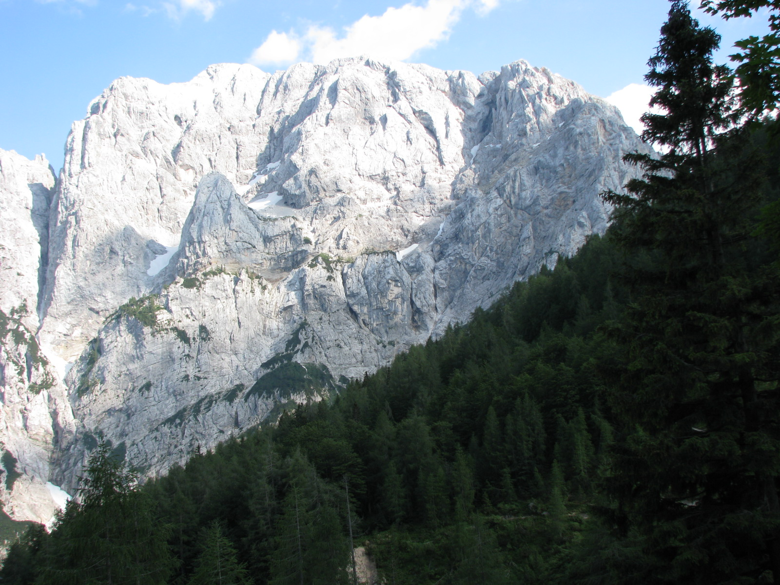 Ajdovska deklica in the center of the photo